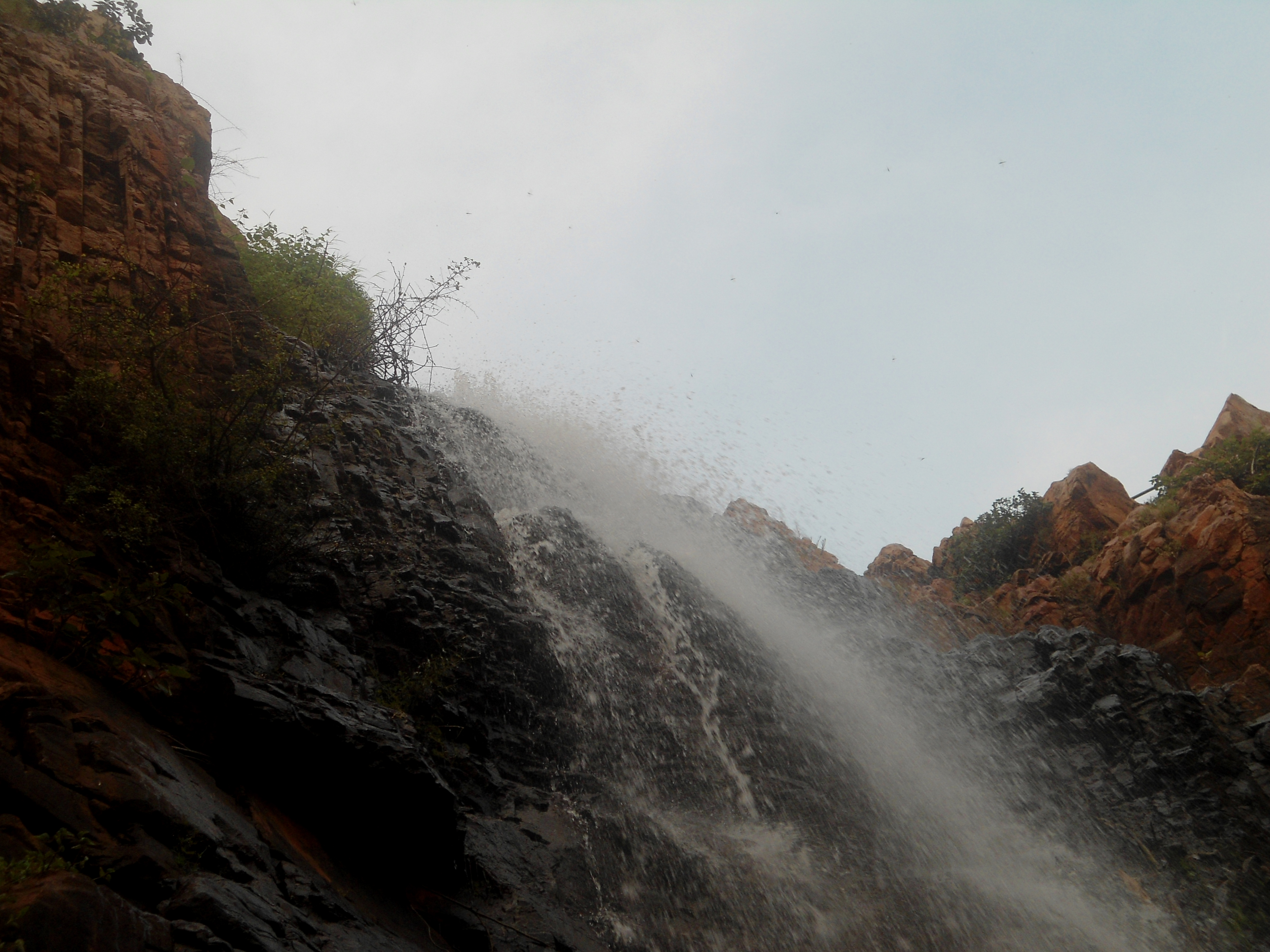 A view of upper level waterfalls at Kapila Theertham in Tirupati of Andhra Pradesh